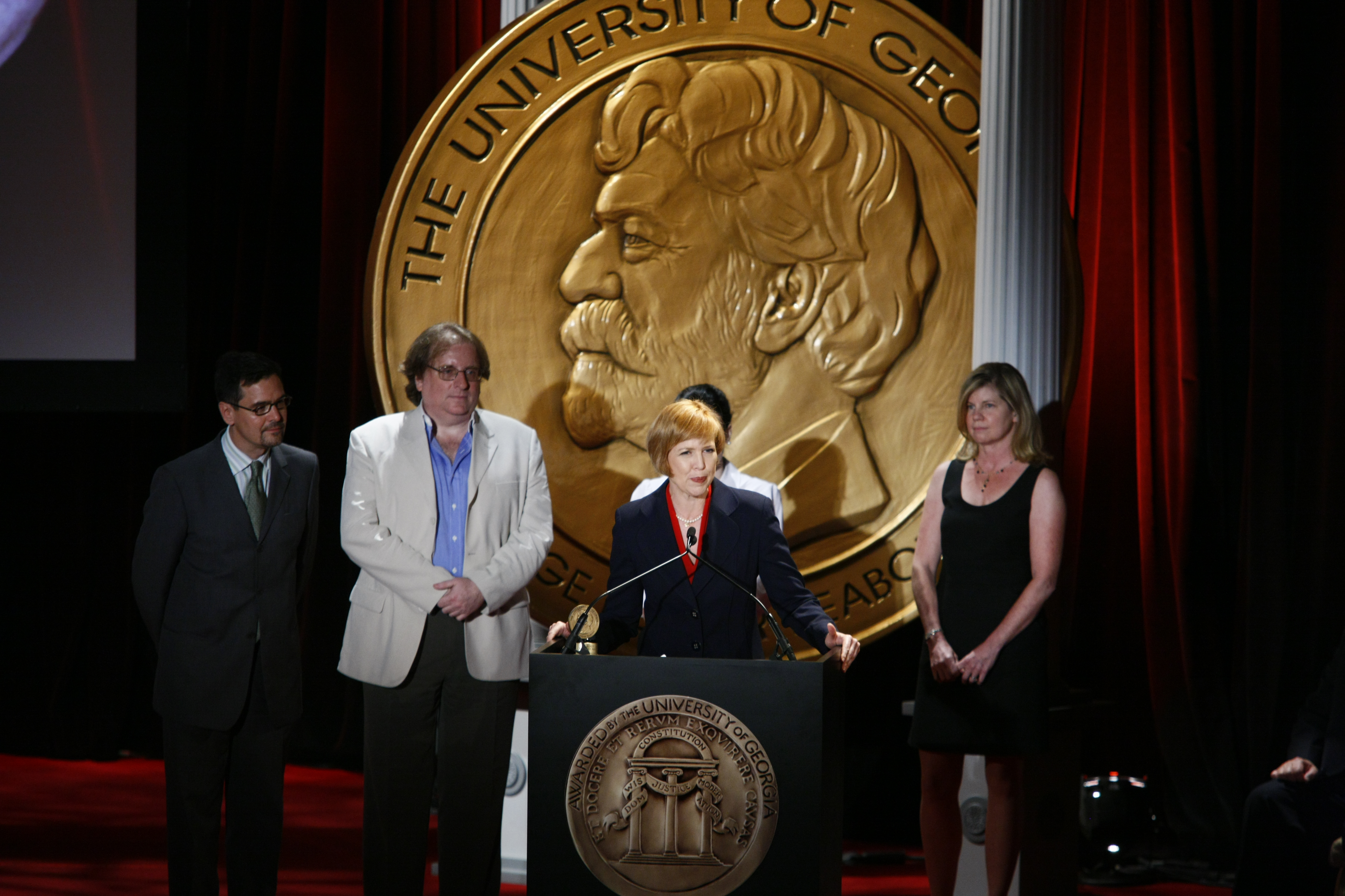 PHOTO CREDIT: ANDERS KRUSBERG / PEABODY AWARDS Reid Orvedahl, ? , Kimberly Dozier and Judy Tygard, 67th Annual Peabody Awards Luncheon Waldorf=Astoria Hotel New York, NY USA June 16, 2008